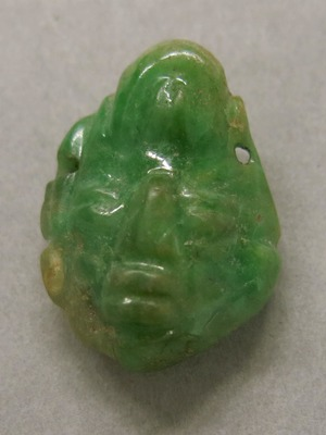 Image of a polished green jade pendant with yellowish/brown inclusions owned by the Yale Art Gallery. Made between AD 250-1000 by the Maya people in Mexico or Guatemala. Dimensions are 2.62 x 1.93 x 0.94 cm. Artist unknown.